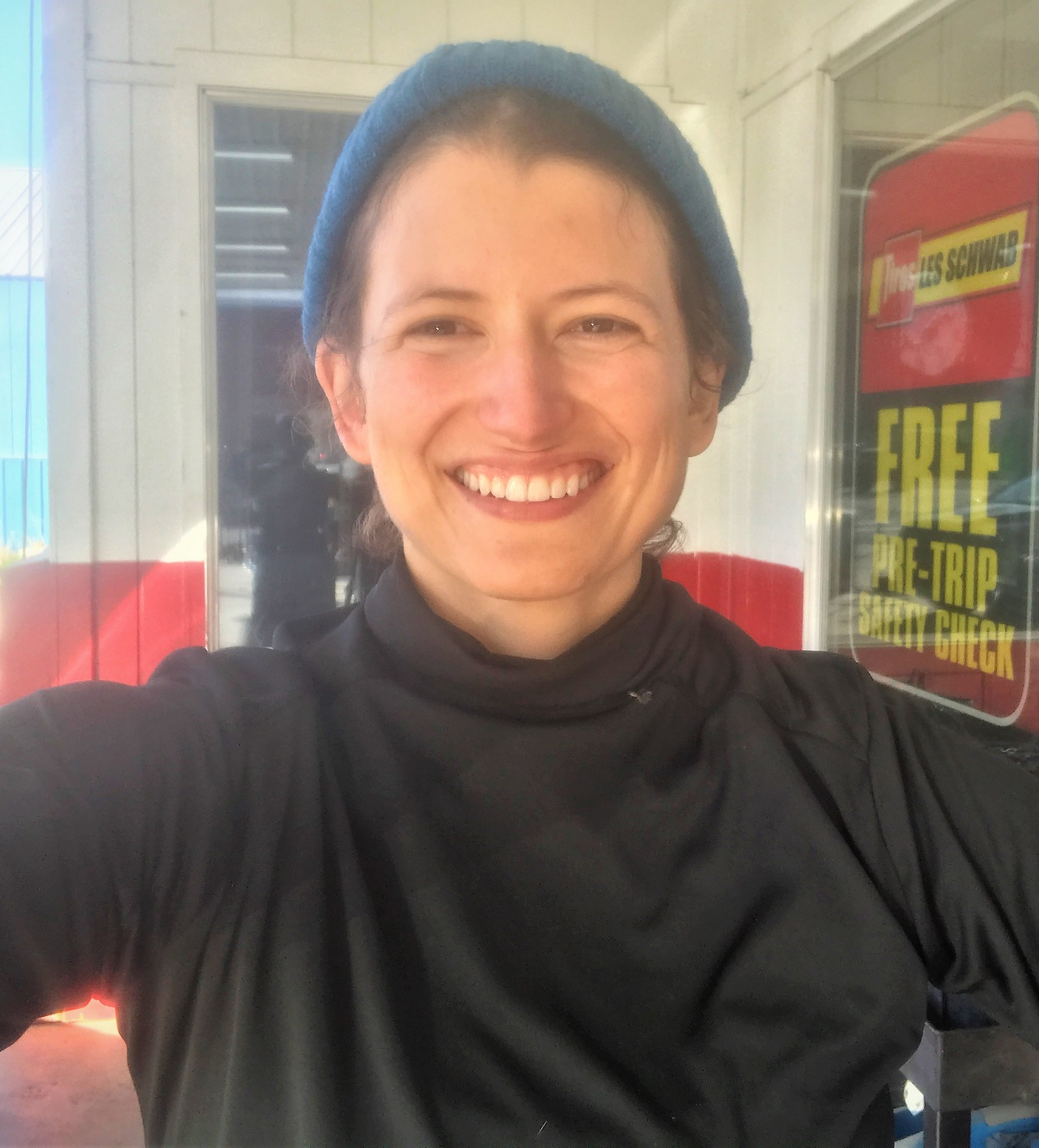 Selfie of American journalist Nellie Bowles.